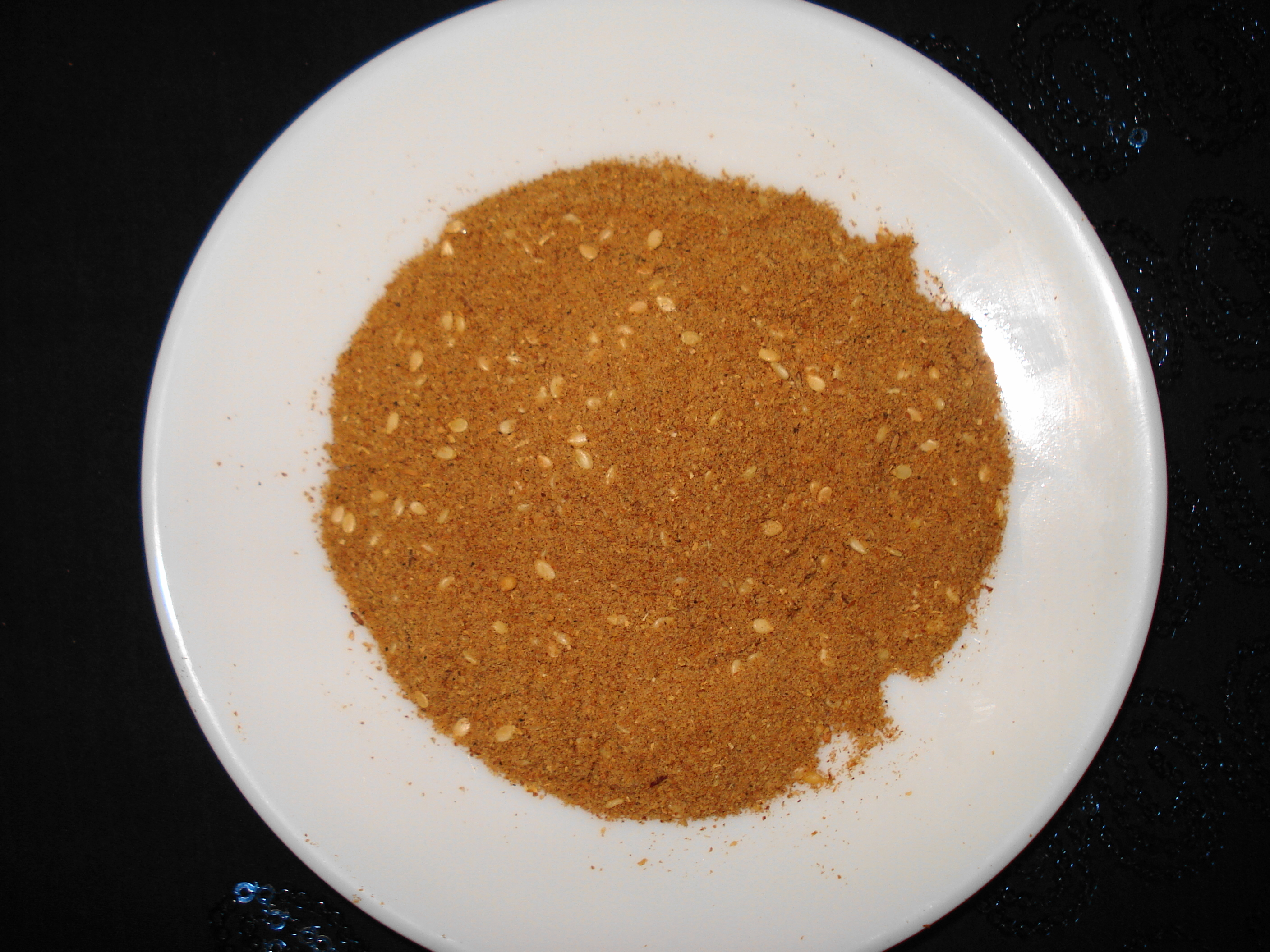 Dukka of Madinah Munnawara is very famous